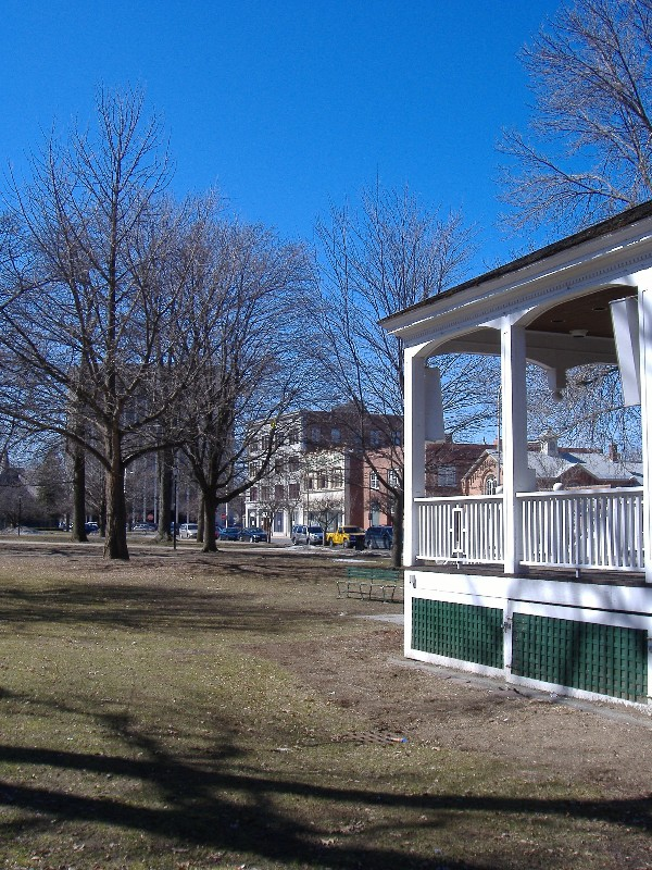 Glens Falls 005